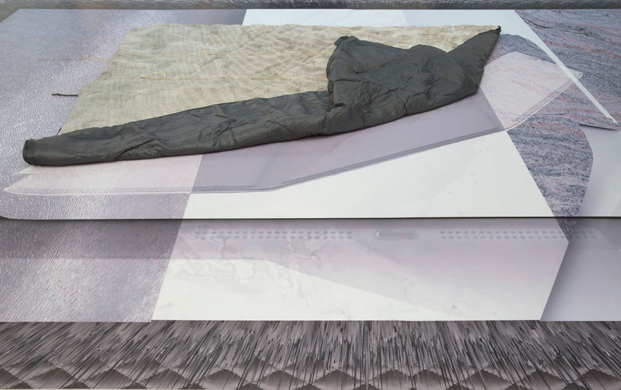 Life is an infinite Line [several Diodes triggering]